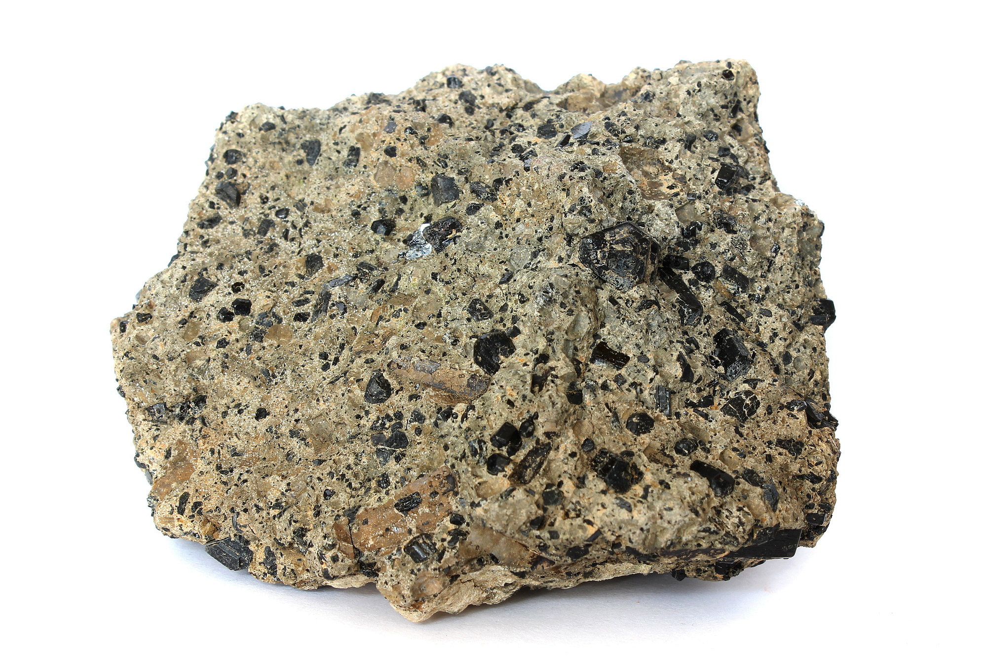 Tuff with kaersutite. Lokality: Suletice, Czech republic. Rock sample belongs to Geo collection of author.